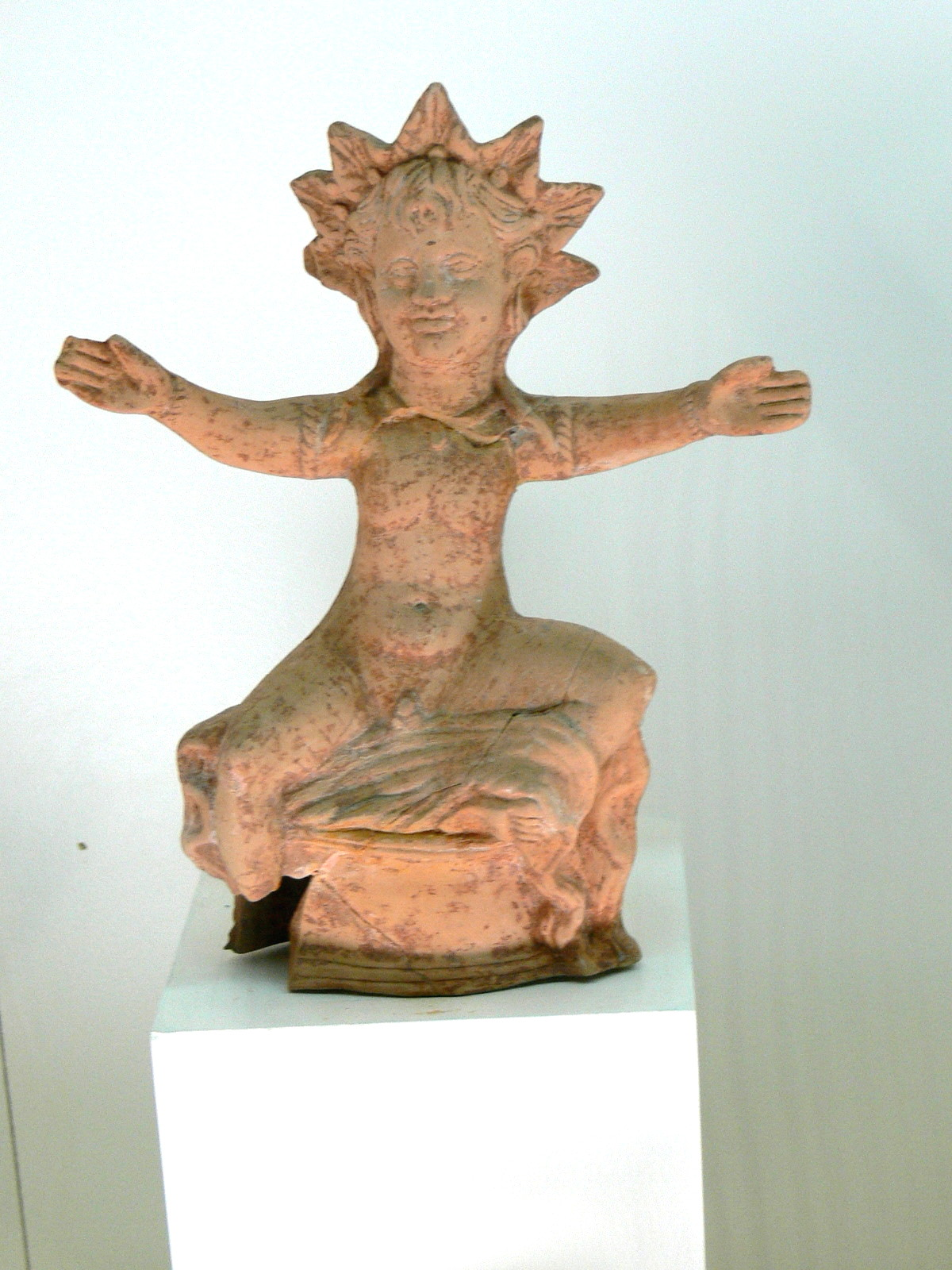 Antalya Archaeological Museum. Figurine of Helios.